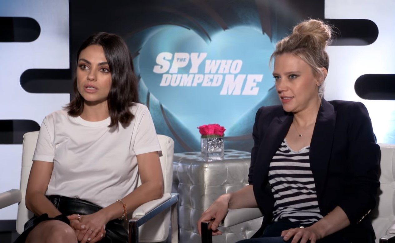 The stars of action comedy The Spy Who Dumped Me, Mila Kunis and Kate McKinnon, reveal the moments they couldn’t help LOLing at on set, what they love most about each other, the superhero Kate is dying to play and the ONE thing it will take for Mila Kunis to join a big superhero movie.